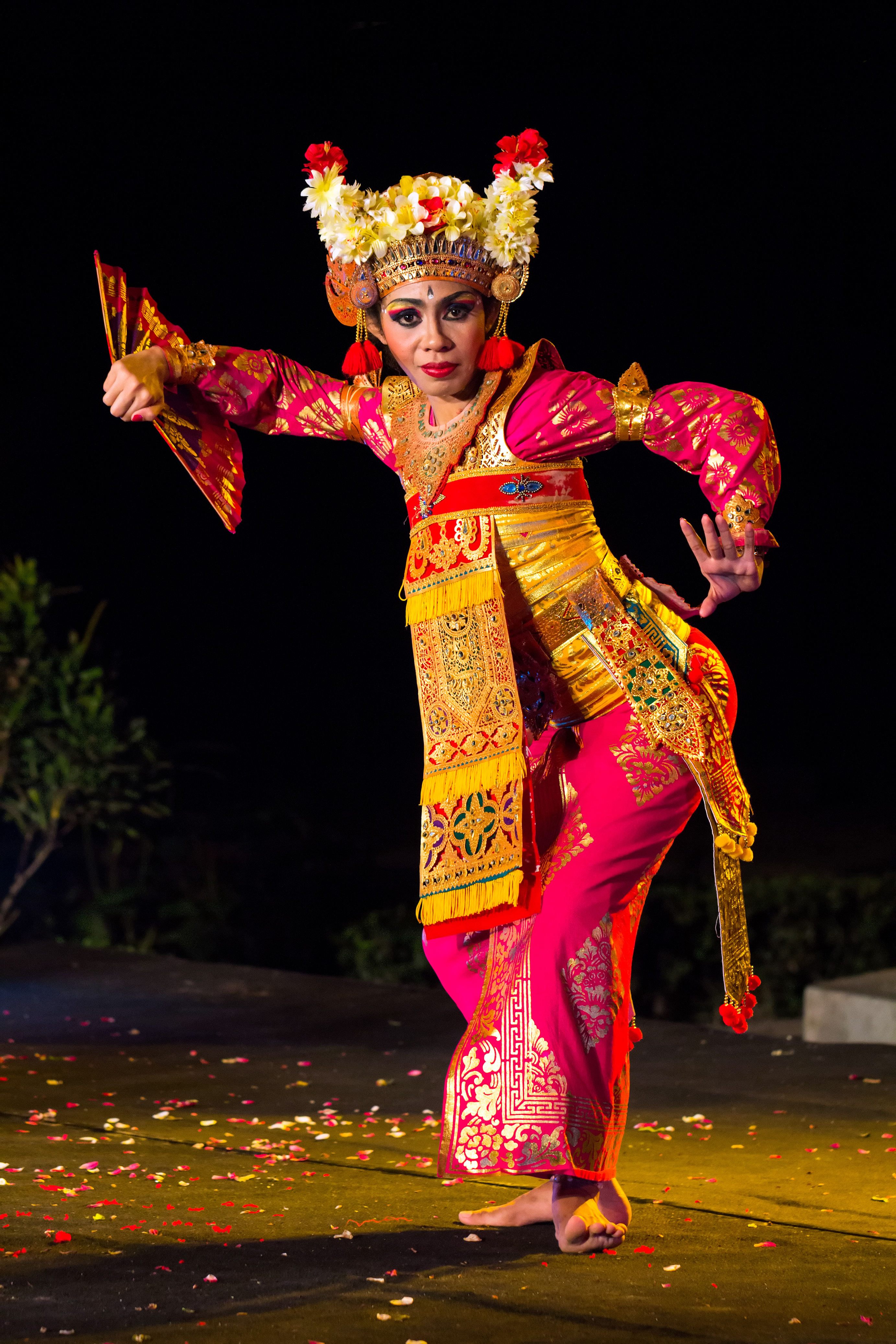 Sanata Dharma University's Sekar Jepun, a Balinese dance troupe, celebrates its 17th anniversary. Here the Legong Bapang Saba is danced.